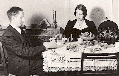 Photograph of the Finnish writers Tatu Vaaskivi (1912–1942) and Elina Vaara (1903–1980).